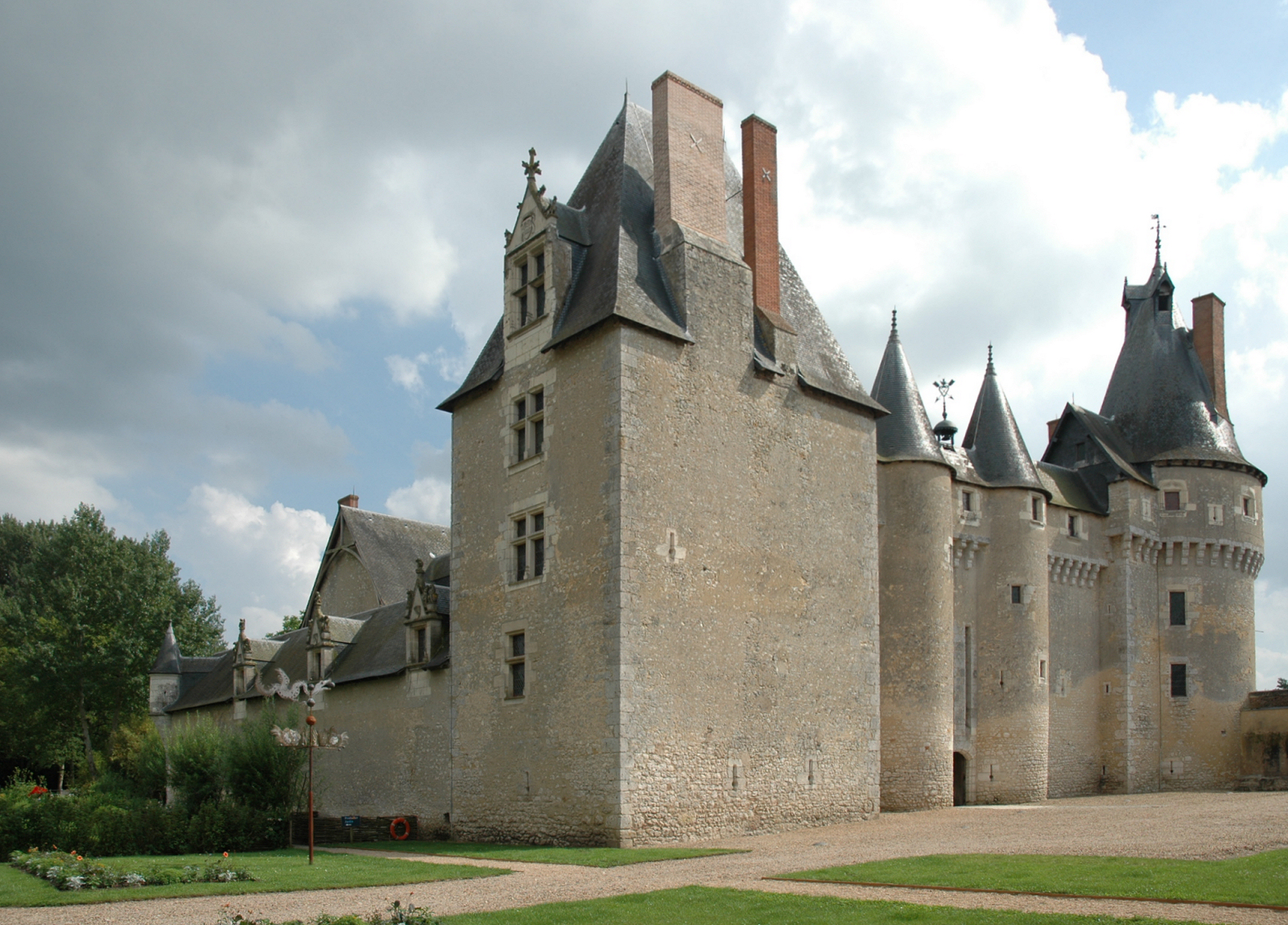 Château de Fougères-sur-Bièvre, northern aspect